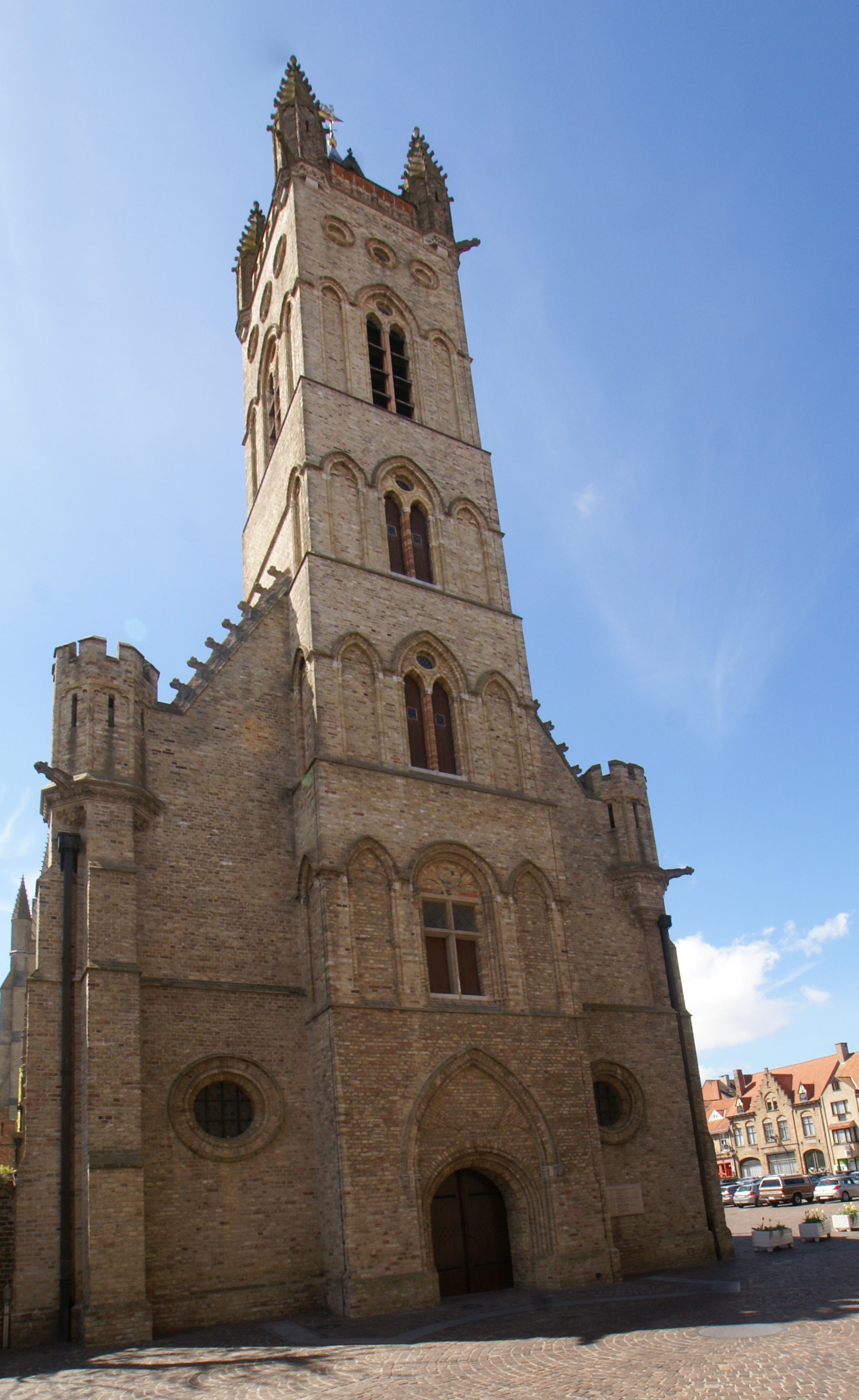 Nieuwpoort (Belgium): Belfry